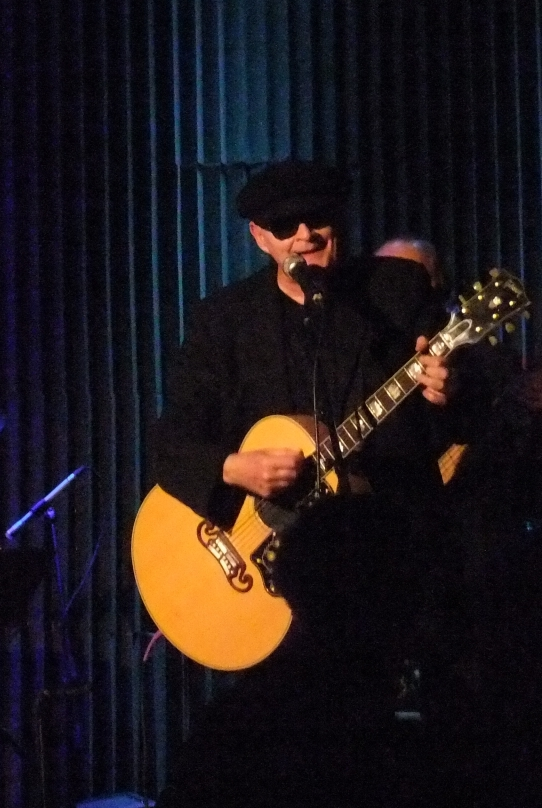 Tom Finn, of The Left Banke-1960s Baroque-Rock Band Hit songs include "Walk Away Renee" and "Pretty Ballerina"; featuring original members Tom Finn and George Cameron-performed at the Tupelo Music Hall in Londonderry, New Hampshire on July 6, 2012.